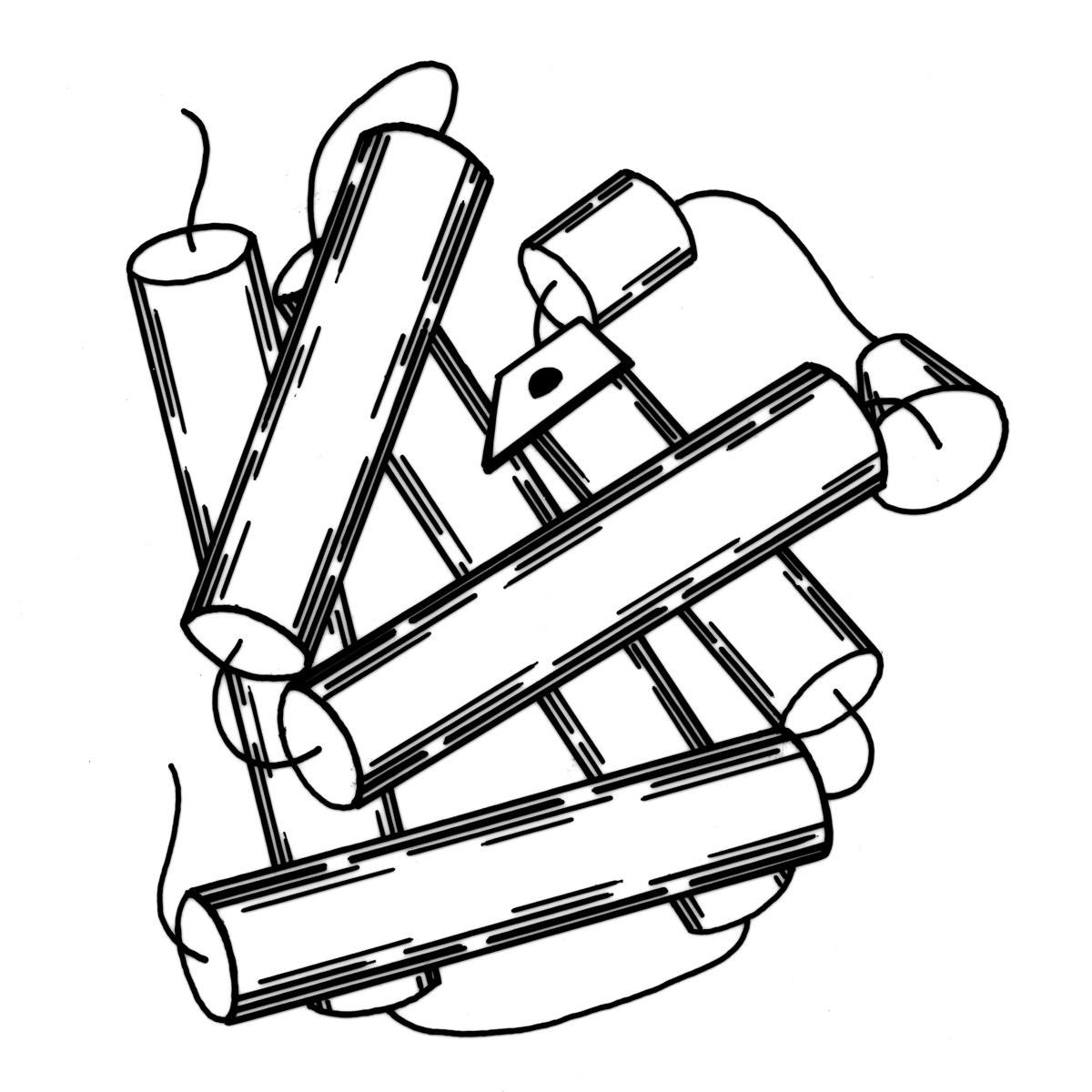 A sketch drawing of the myoglobin structure, with alpha-helices as cylinders and the heme group as a flat plate. Drawn by Jane Richardson about 1980.